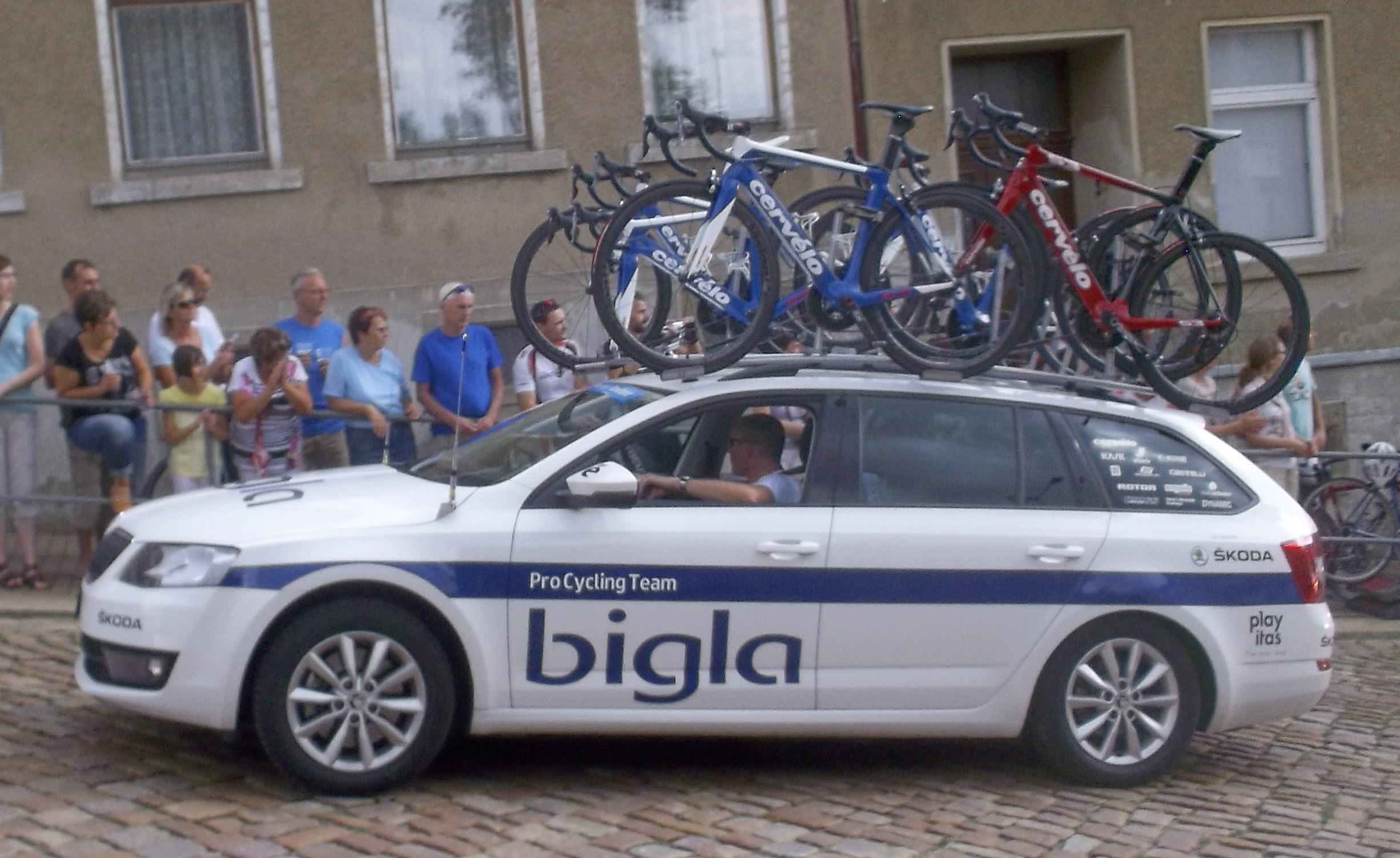 Car of the team Bigla during the Thüringen Rundfahrt 2015